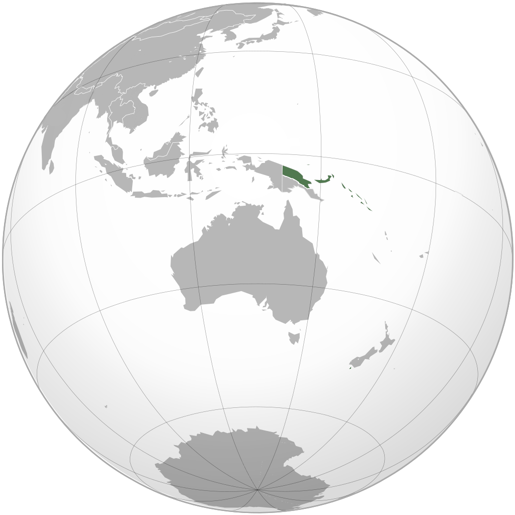 German New Guinea (shaded in dark green) in the year 1914